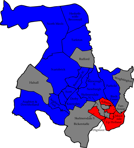 A map of the results of the 2006 West Lancashire Council election. Colour legend by wards won: Conservative party Labour party Wards in grey were not contested in 2006.